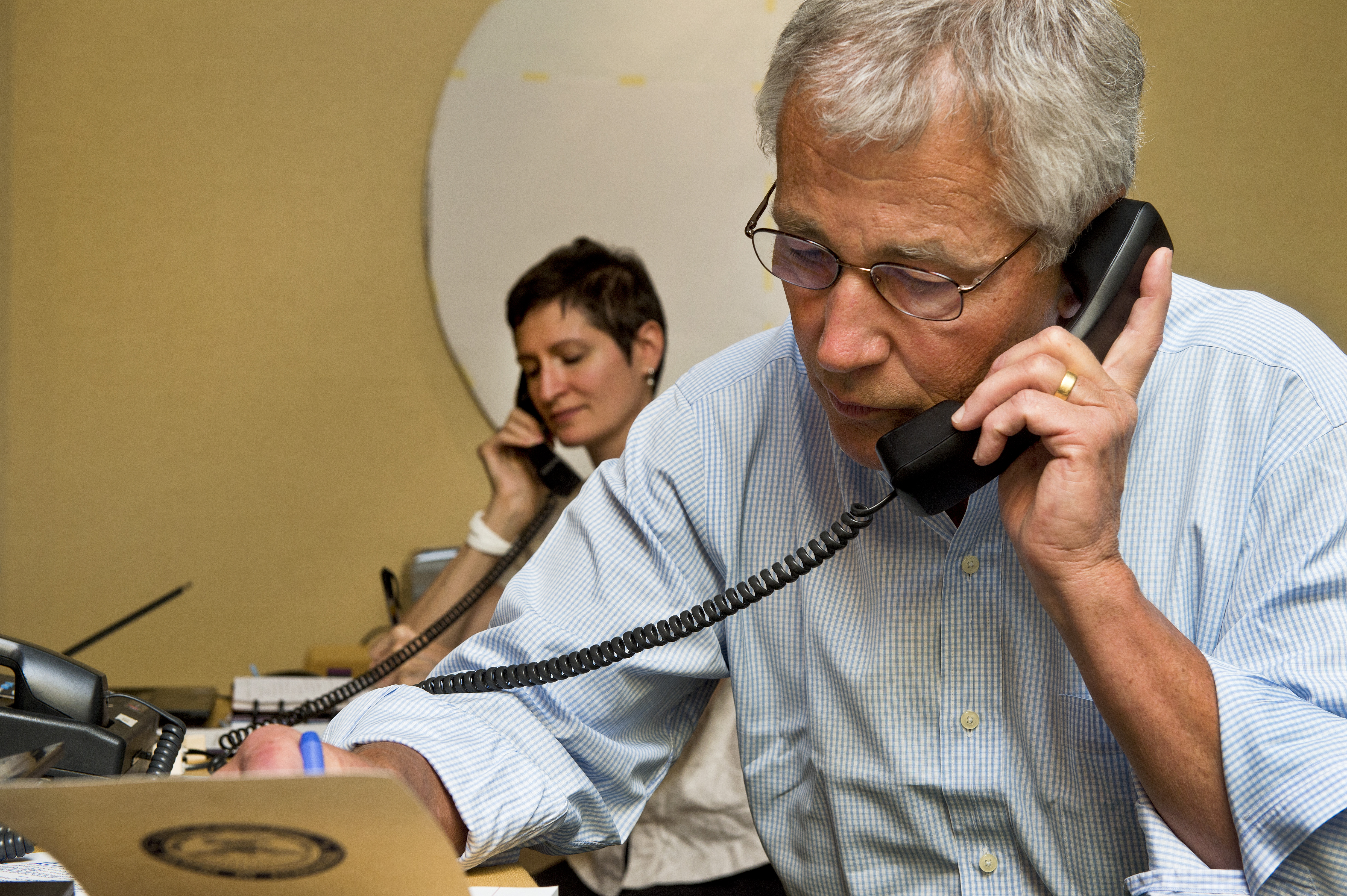 Original description: "Defense Secretary Chuck Hagel speaks on the telephone with Egyptian Defense Minister Gen. Abdel-Fattah el-Sissi while on an official visit in Kuala Lumpur, Malaysia, Aug. 24, 2013. Hagel said Egypt must make progress on the political roadmap and refrain from violence. The secretary, who also will travel to Indonesia, Brunei and the Philippines, is in the Asia-Pacific region to deepen cooperation with each nation and discuss regional security issues. DOD photo by Marine Corps Sgt. Aaron Hostutler"